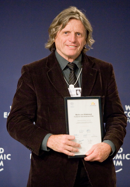 Martín von Hildebrand, ethnologist, spoken at the World Economic Forum on Latin America in Rio de Janeiro City, Rio de Janeiro State on April 15, 2009.